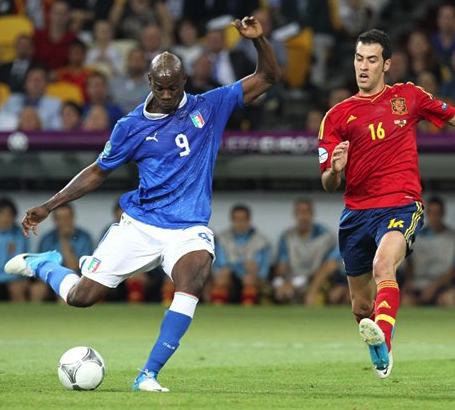 Mario Balotelli and Sergio Busquets in the European Championship Final, 2012